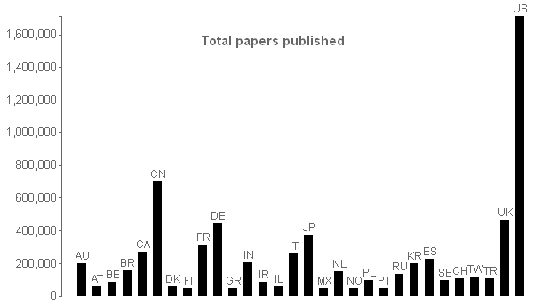 Total number of papers by country. Countries: Australia (AU) Austria (AT) Belgium (BE) Brazil (BR) Canada (CA) China (CN) Denmark (DK) Finland (FI) France (FR) Germany (DE) Greece (GR) India (IN) Iran (IR) Israel (IL) Italy (IT) Japan (JP) Mexico (MX) Netherlands (NL) Norway (NO) Poland (PL) Portugal (PT) Russia (RU) South Korea (KR) Spain (ES) Sweden (SE) Switzerland (CH) Taiwan (TW) Turkey (TR) United Kingdom (UK) United States (US).